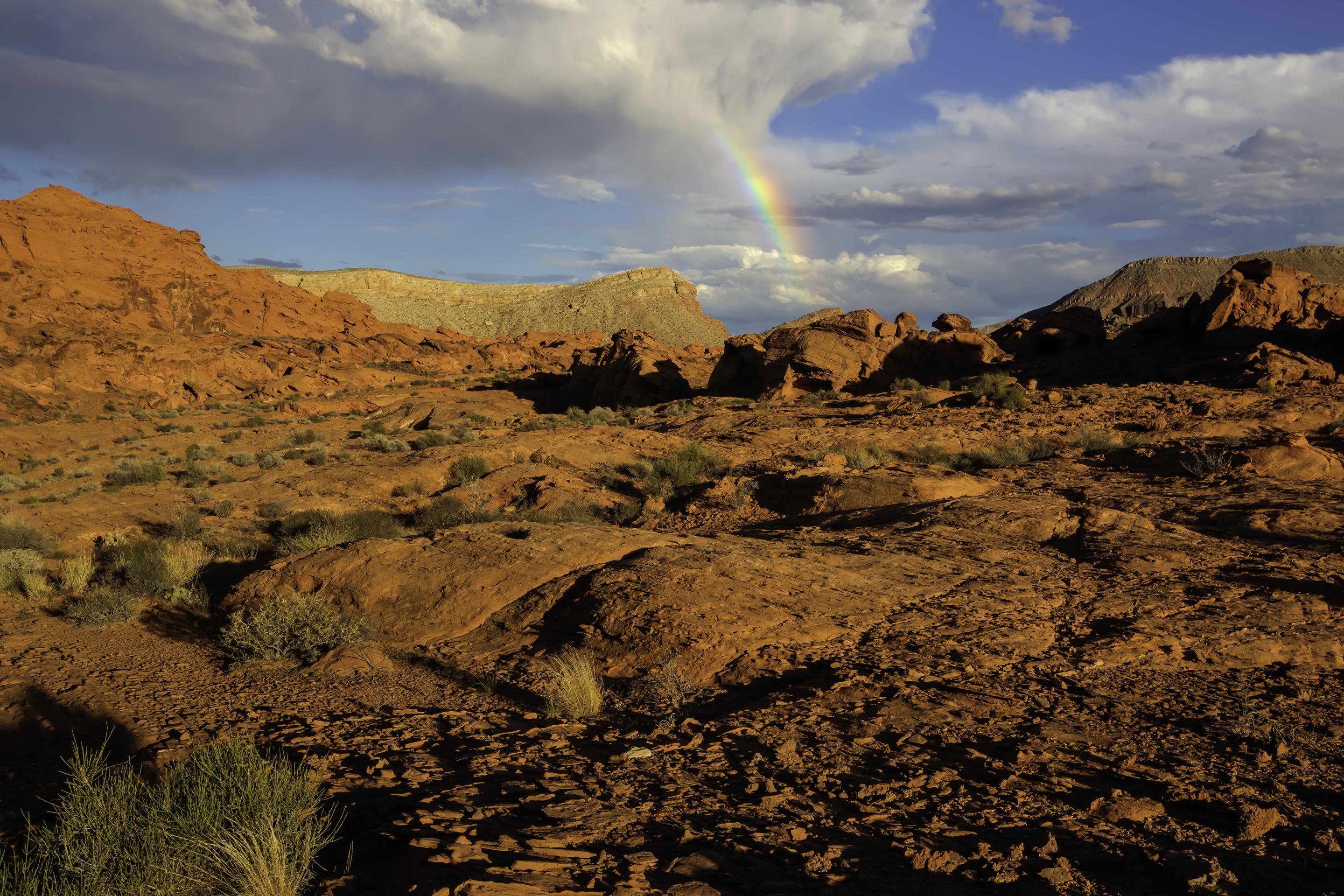 Photo of Gold Butte National Monument